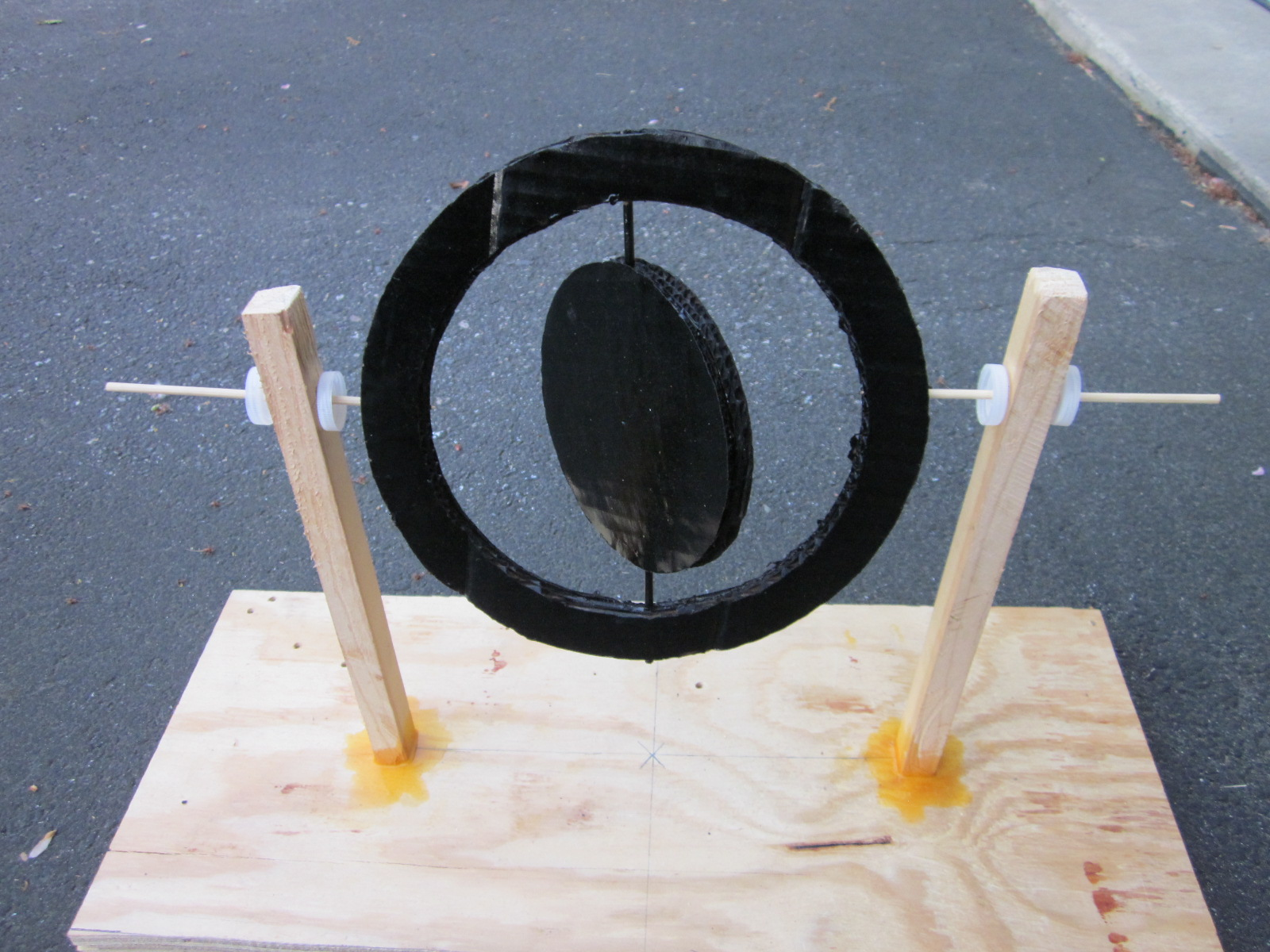 Final Gimbal